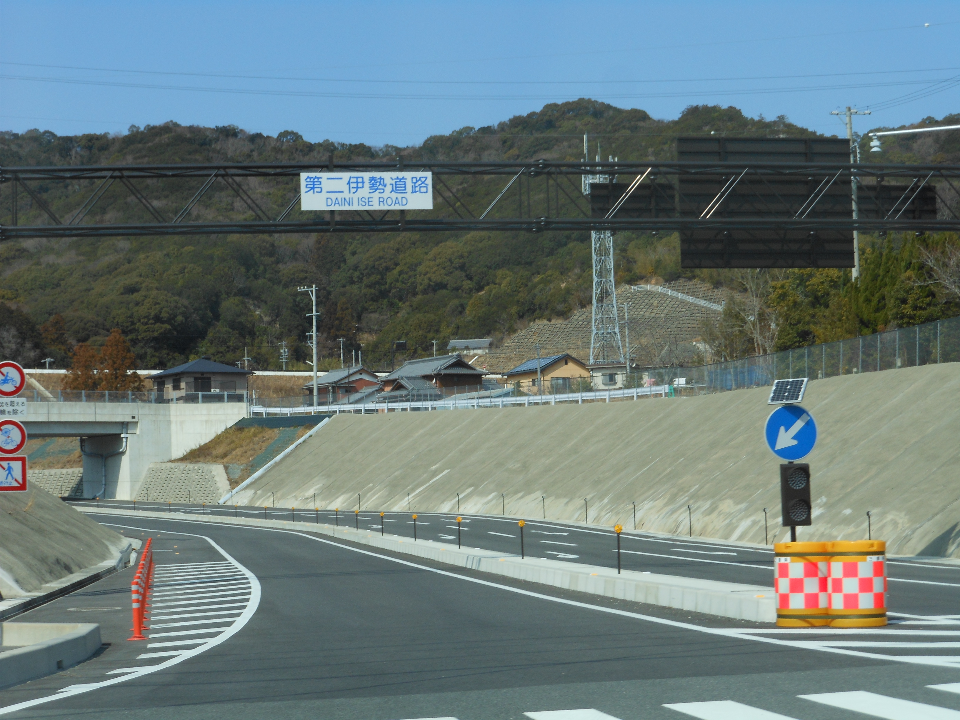 This is the Tobaminami-Shiraki Interchenge in Shiraki-cho, Toba city, Mie prefecture, Japan.